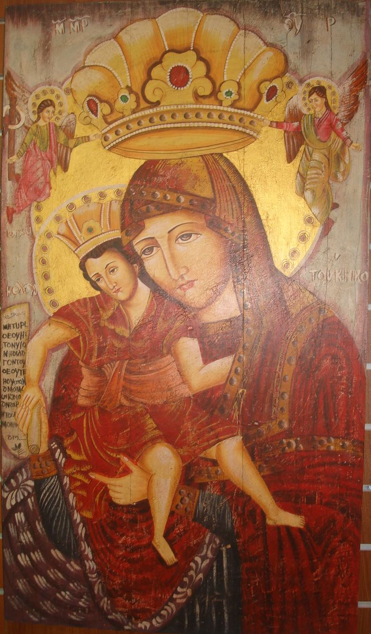 Without a riza, a copy of the icon of the Virgin Kykkos Monastery (Cyprus)